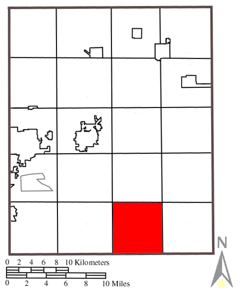 Map of Portage County with Atwater Township highlighted.